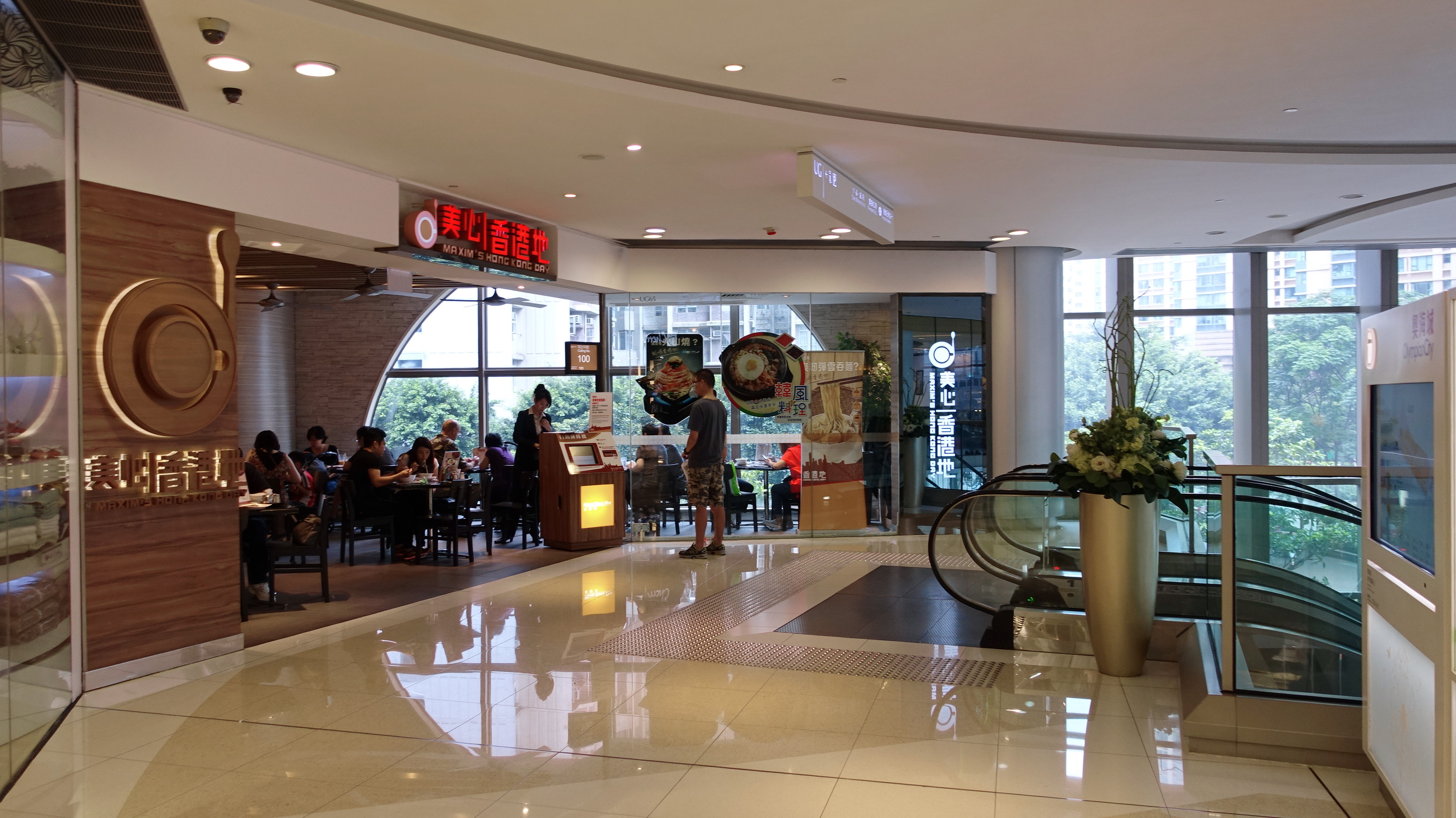 Maxim's Hong Kong Day, Olympian City 3, Shop UG65, Kowloon, Hong Kong.